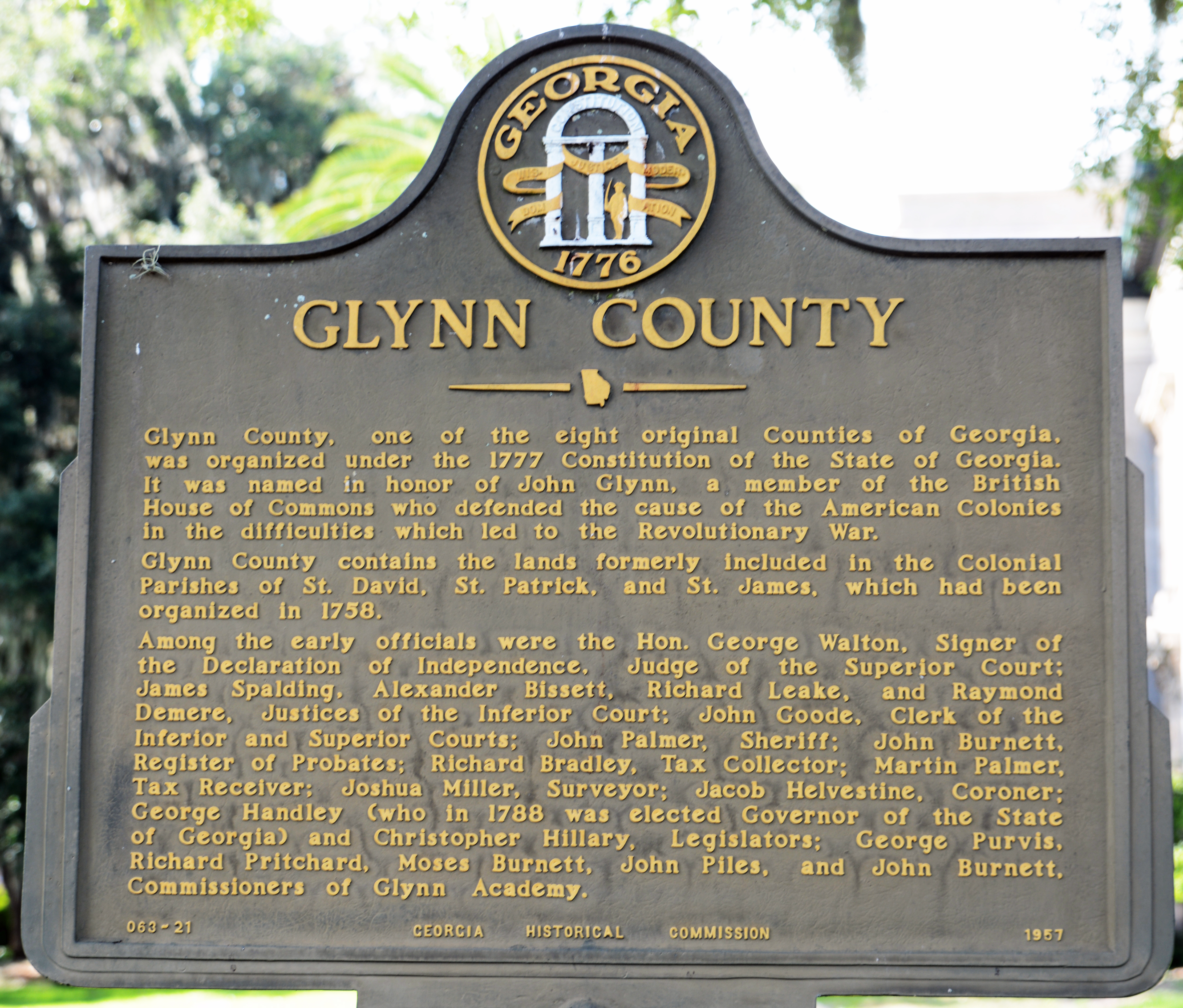 Historical marker in Glynn County, Georgia, U.S.